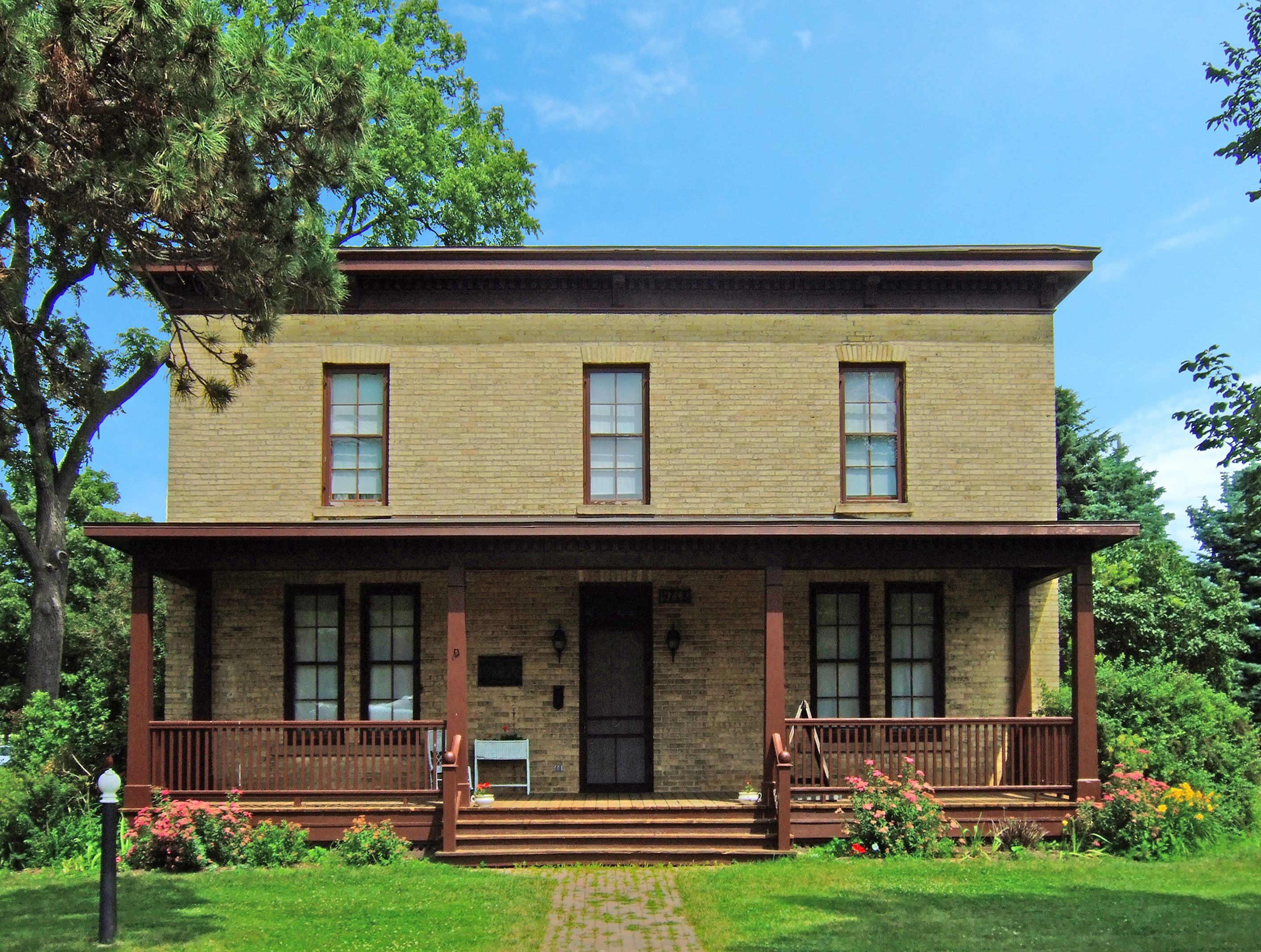 This simple, flat-roofed cream brick structure with wood cornice and dentils located at 4718 Monona Drive in Madison, Wisconsin, was built in 1856 for Nathaniel W. and Harriet Dean, who lived in the house in the 1860s and early 1870s. After Nathaniel Dean's death, Harriet moved to California. The house was used by tenant farmers after 1871 and in the 1920s as the Monona Golf Course clubhouse, serving in this capacity for 50 years. The Historic Blooming Grove Historical Society began restoration of the Dean House in 1972, and it was added to the National Register of Historic Places in 1980. It is now a venue for cultural events and local history study.